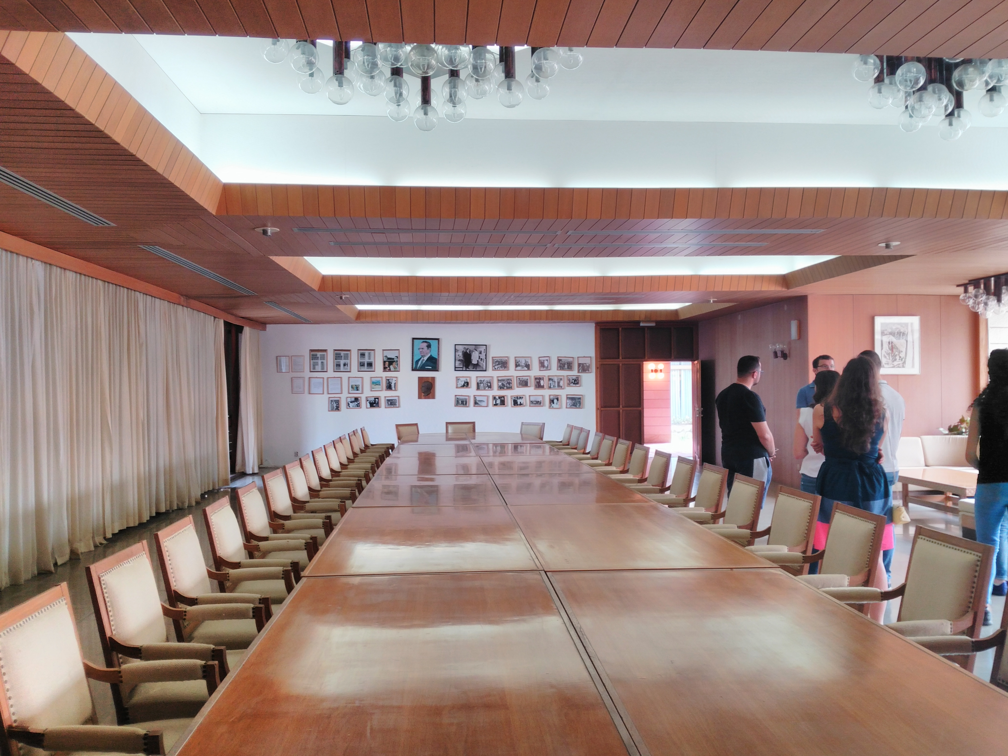 Villa Galeb in Igalo in Montenegro. Conference Hall in which in late years of president Tito's life government meetings were held.